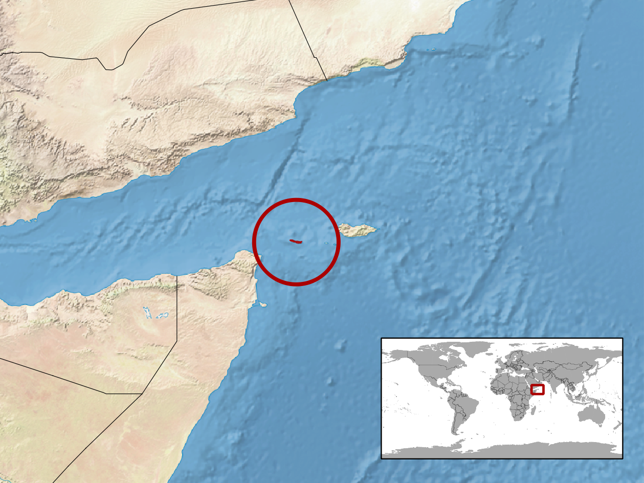 geographic distribution of Hemidactylus oxyrhinus (Native: Yemen (Socotra))